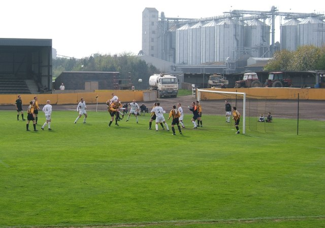 Shielfield Park, Home of Berwick Rangers FC, near to Tweedmouth, Northumberland, Great Britain. Looking over the goal at the North end of the stadium, towards a malting plant. The game was the 2005-2006 Third Division promotion play-off semi-final, second leg, between Stenhousemuir (in the white, attacking) and Berwick Rangers. The game ended 0-0, Berwick going through as they had won the first leg 1-0. They did not gain promotion, but went up as champions the following season. Despite appearances, there were several hundred spectators at the game. The ground is also home to the Berwick Bandits speedway team. Despite being located in England (and, despite arguments over Berwick-Upon-Tweed, the ground is firmly in England, at Tweedmouth), Berwick Rangers play in the Scottish League.